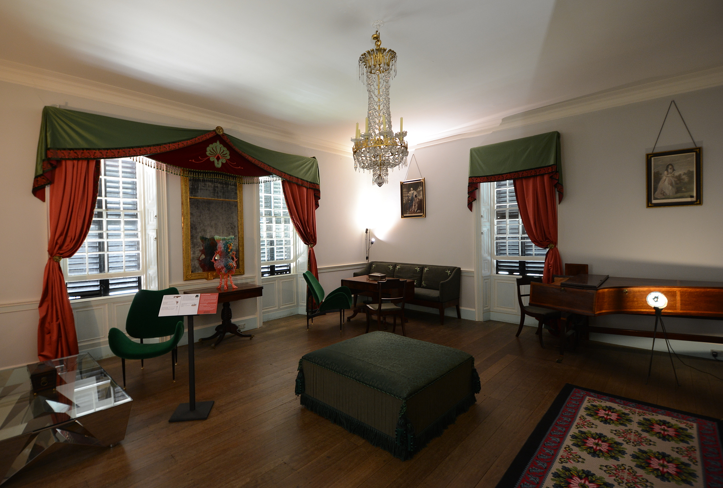 Old Government House, Parramatta, Sydney